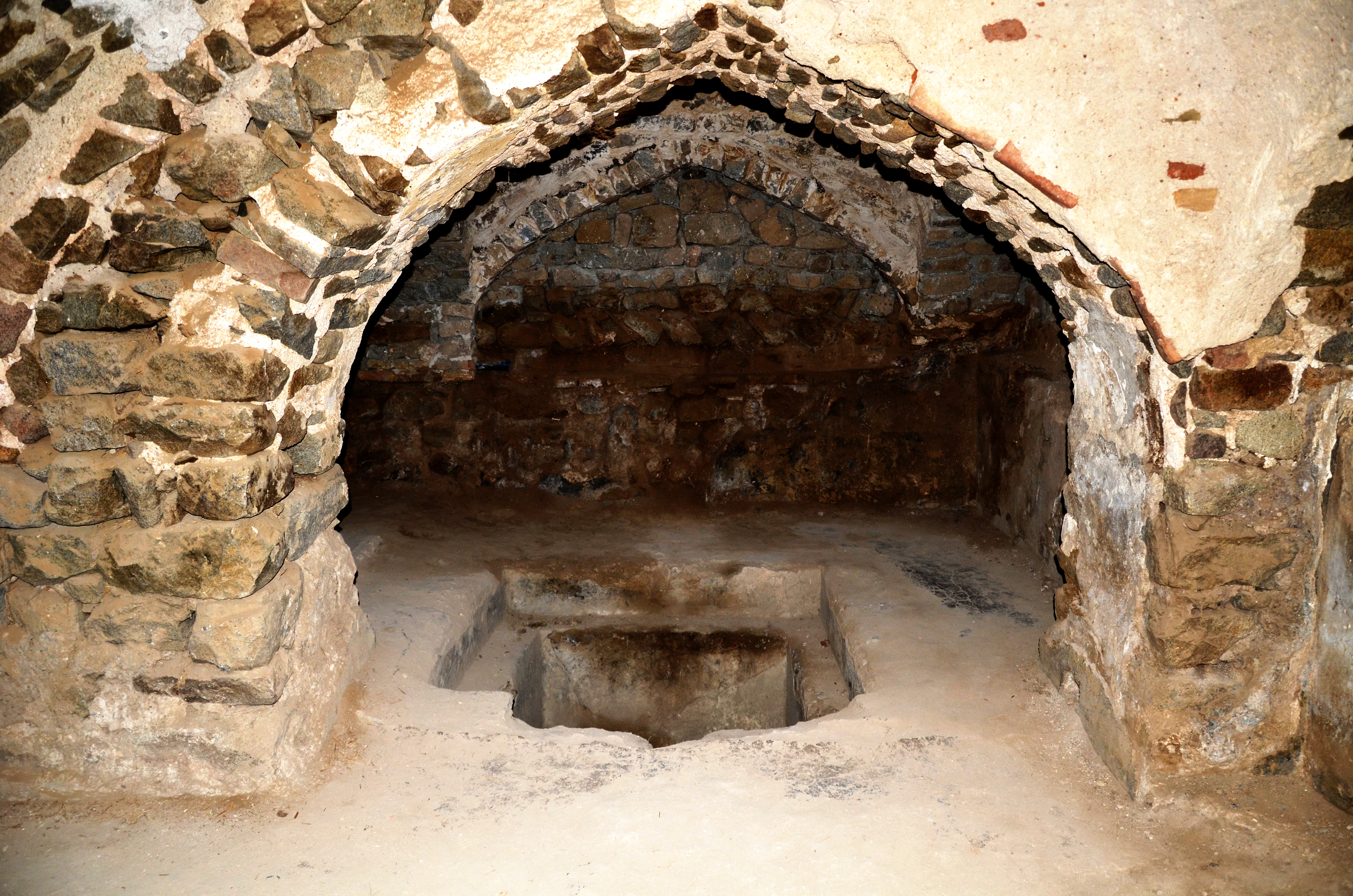 Aras - Kordasht old bath